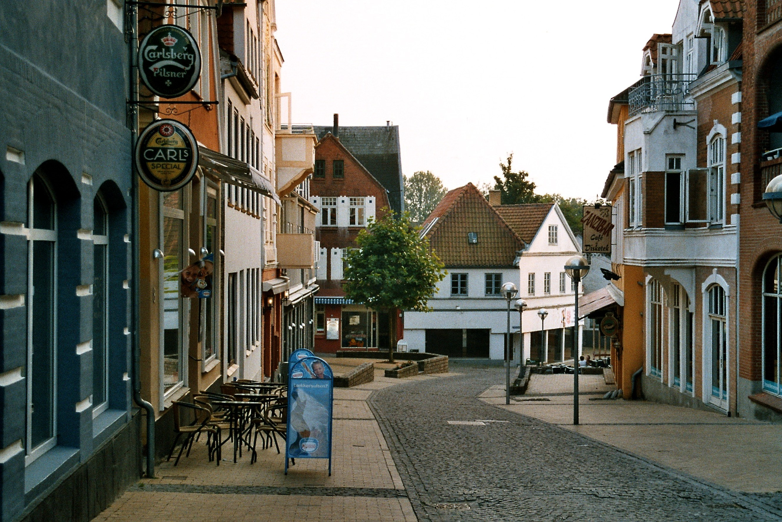 Sønderborg, a street in the centre